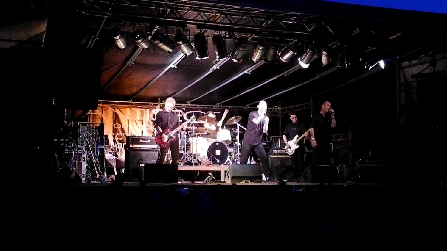 Antisect live in Finland 2011_Photo by M. Davess